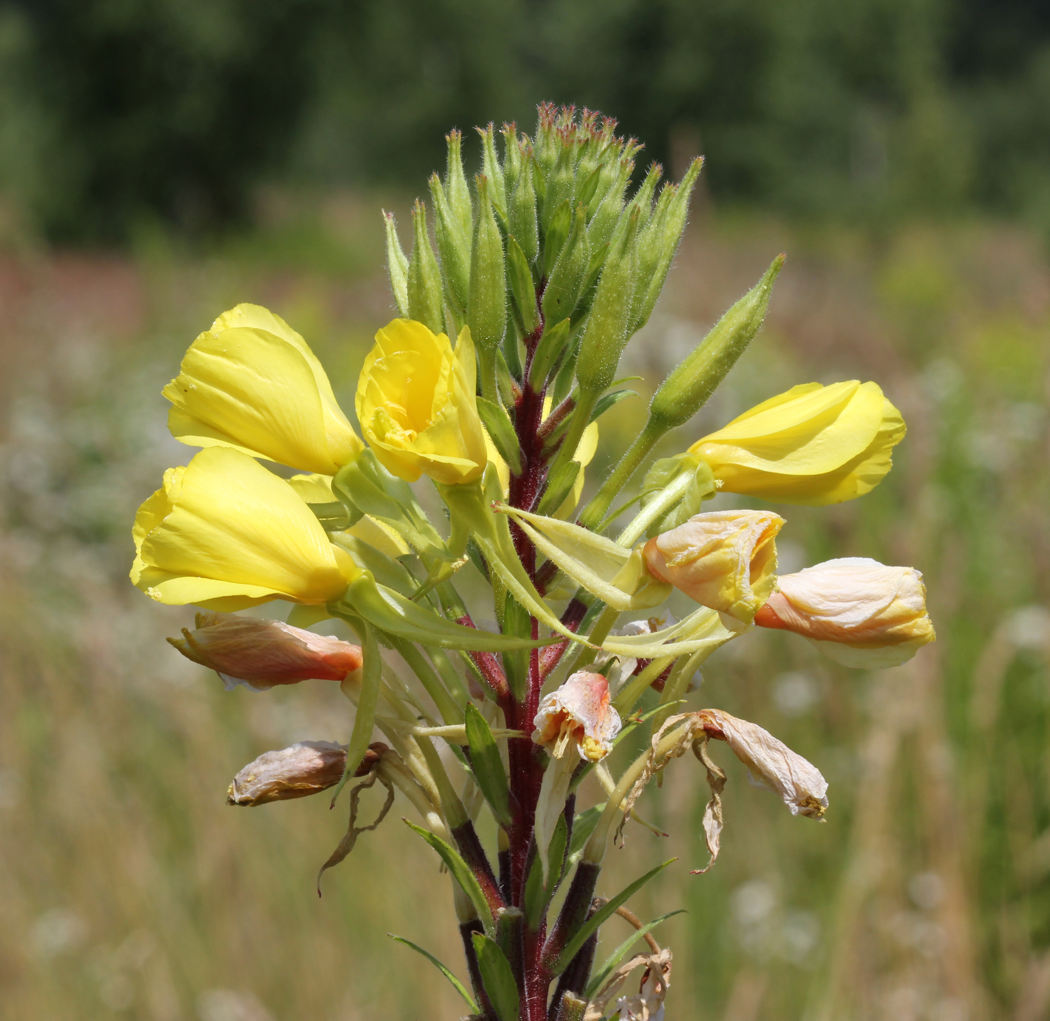 Red-stalked evening primrose (Oenothera biennis, Syn. Oenothera rubricaulis), flowers. Ukraine.